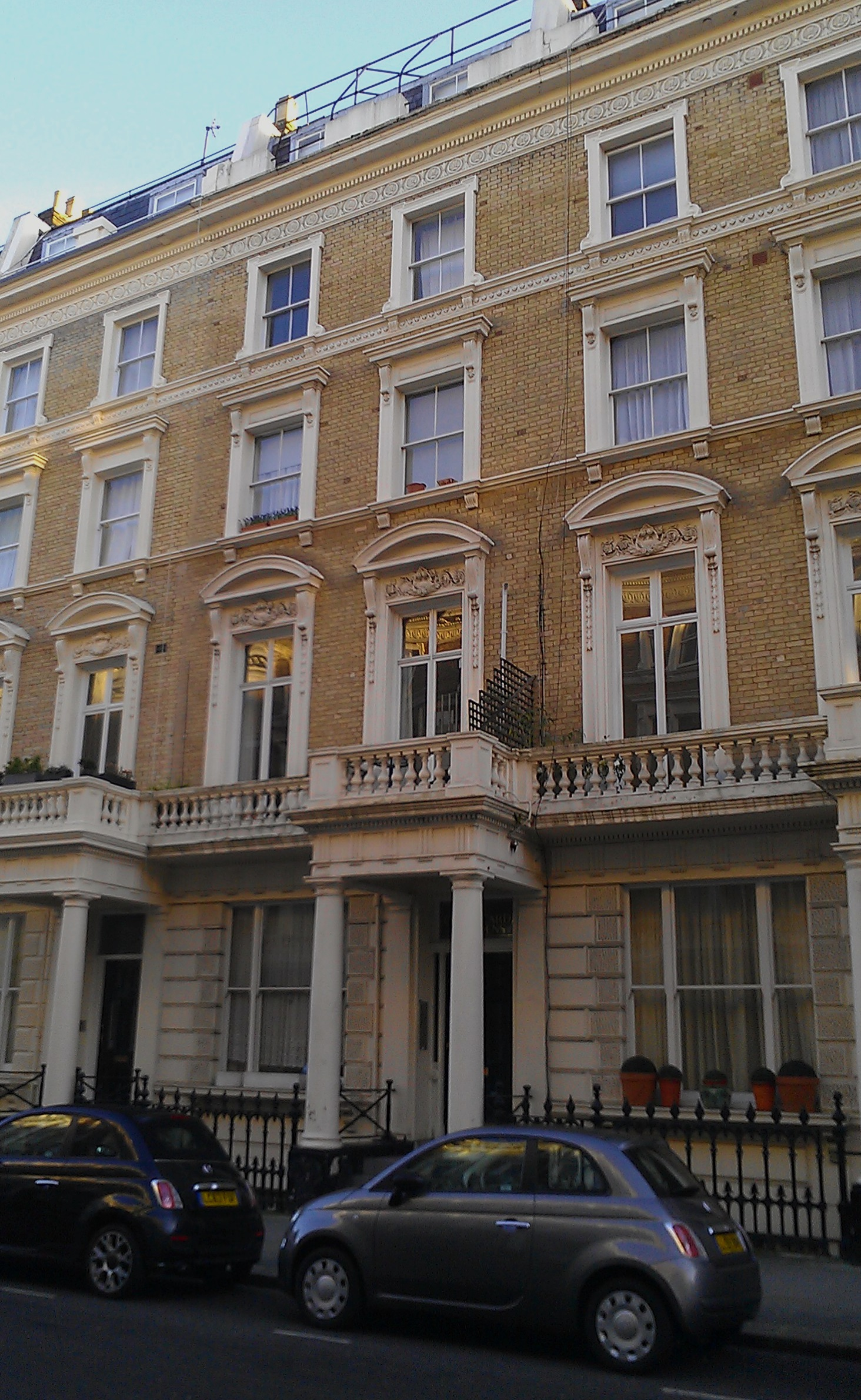 15 Clanricarde Gardens in Bayswater, Royal Borough of Kensington and Chelsea, West London. In the basement of this building lived the Wiccan Alex Sanders during the 1960s and 1970s.